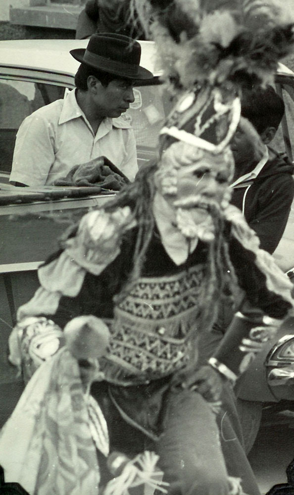 Ceremonial dancer, Guatemala. Photo by Steve Richards